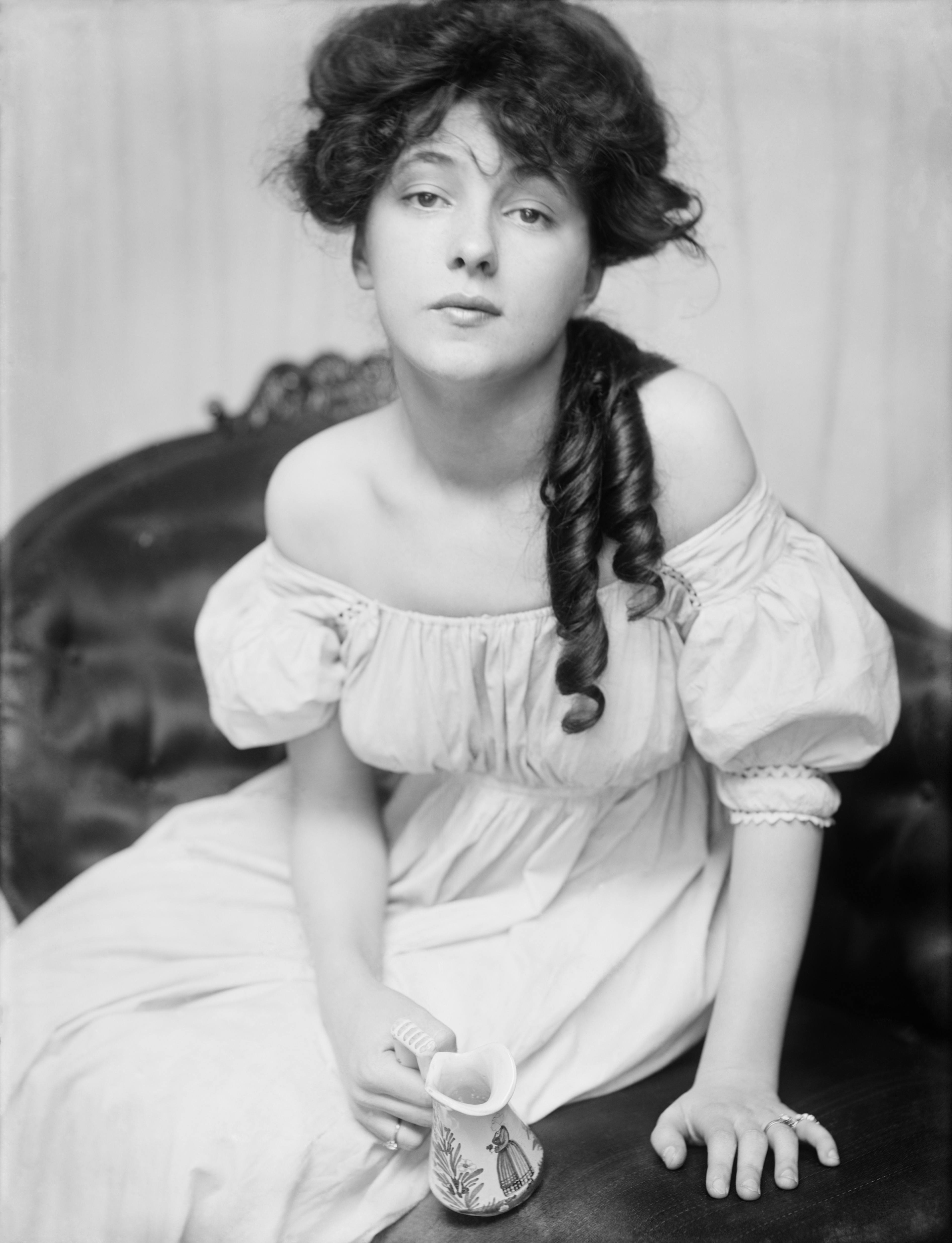 TITLE [Evelyn Nesbit about 1900 at a time when she was brought to the studio by Stanford White] CALL NUMBER LC-K2- 22 [P&P] REPRODUCTION NUMBER LC-DIG-ppmsca-12056 (digital file from original item) RIGHTS INFORMATION No known restrictions on publication. SUMMARY Evelyn Nesbit, three-quarter length portrait, seated, wearing an off-the-shoulder dress. MEDIUM 1 negative : glass, dry plate ; 8 x 10 in. CREATED/PUBLISHED [ca. 1900] NOTES LOT 10137 (location of corresponding print made by the Library of Congress Photoduplication Service in 1964). Gift, Mina Turner, Käsebier's granddaughter ; 1964. Title and date from mount of corresponding print in LOT 10137. SUBJECTS Nesbit, Evelyn,--1884-1967. FORMAT Portrait photographs 1890-1910. Dry plate negatives 1890-1910. REPOSITORY Library of Congress Prints and Photographs Division Washington, D.C. 20540 USA DIGITAL ID (digital file from original item) ppmsca 12056 CONTROL # 2006684222